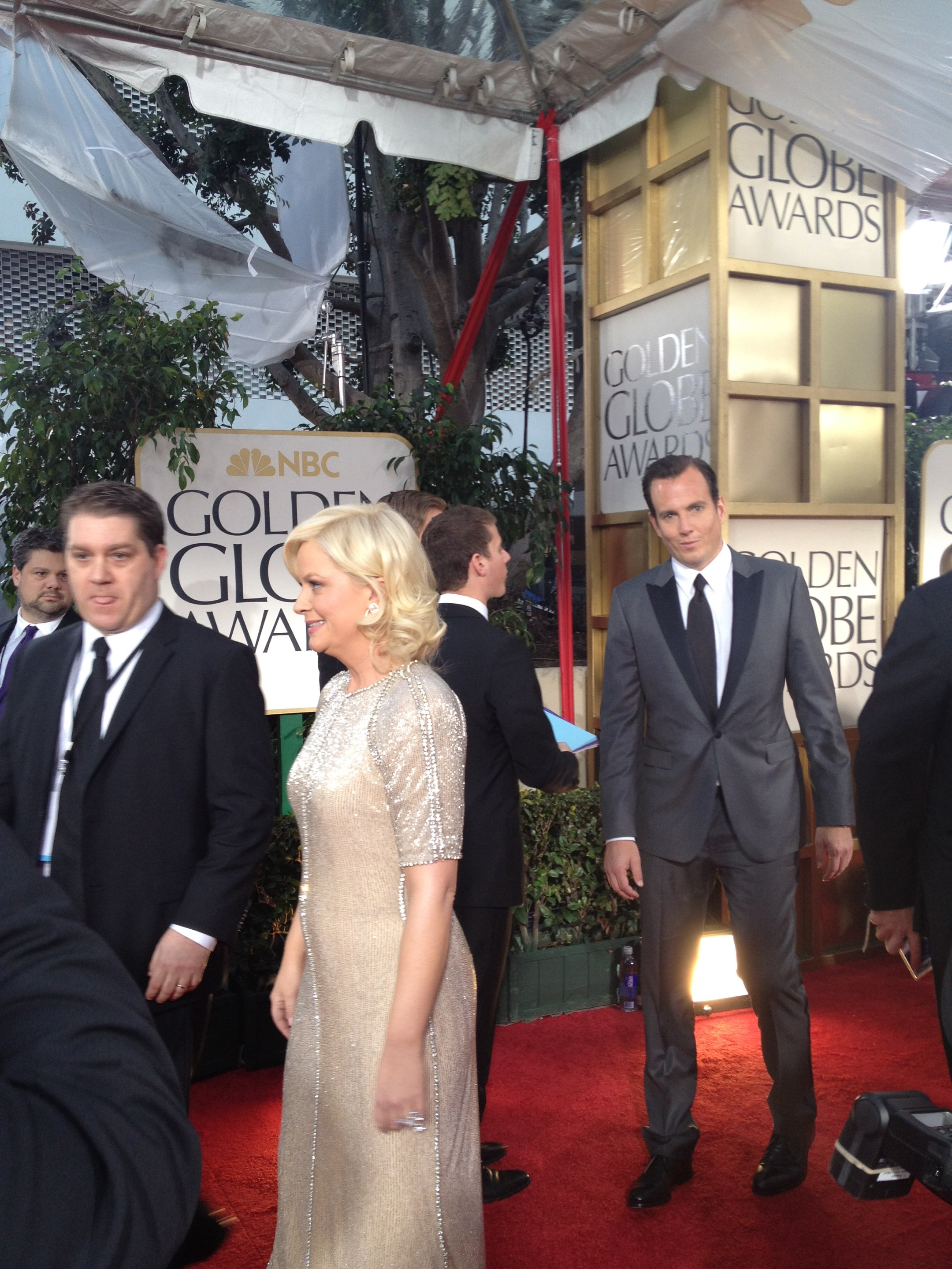 69th Annual Golden Globes Awards.